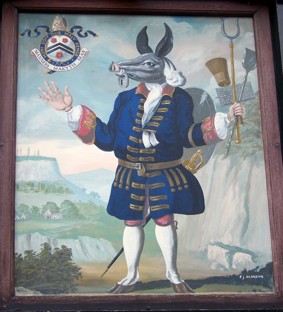 Sign for the Trusty Servant The Trusty Servant has a satirical sign. It depicts the ideal servant - a creature with a pig's head, standing for unfussiness in diet, with its snout locked for secrecy. The ears are of an ass, for patience, and it has stag's feet for swiftness. The left hand holds a brush, shovel and two-pronged fork. The sign has been painted by P J Oldreive.